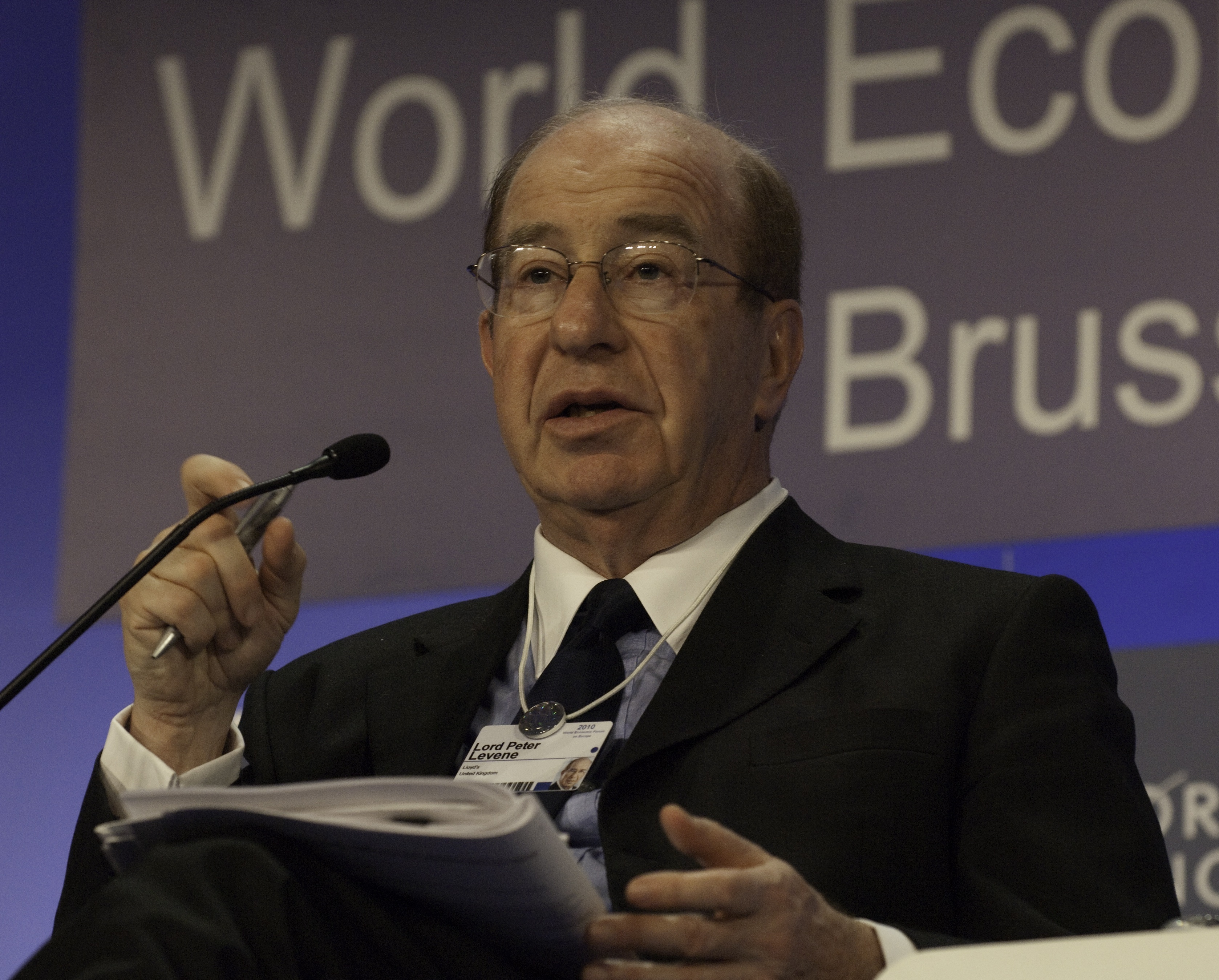 BRUSSELS/BELGIUM, 10 MAY 2010 - Lord Peter Levene (Chairman, Lloyds, United Kingdom) captured at the World Economic Forum on Europe held in Brussels, Belgium, May 10, 2010.. Copyright World Economic Forum ( by Youssef Meftah